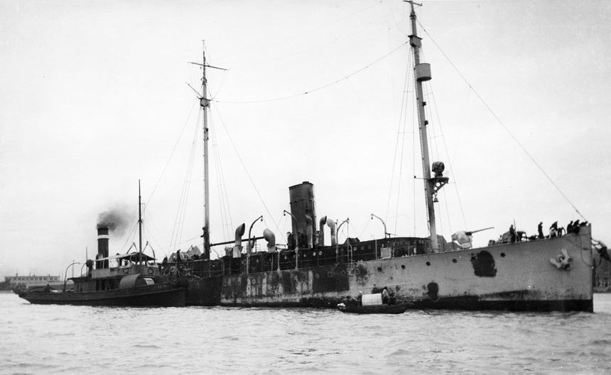 The U.S. Navy gunboat USS Fulton (PG-49) at Hong Kong after burning at sea on 14 March 1934. She was towed into Junk Bay near Hong Kong by a British naval tug after a British destroyer and a merchantman rescued her crew. The wooden pilot house was completely destroyed by the intense fire and much of the rest of the ship was gutted. Her forward 7.6 cm/50 AA gun, however, survived unscathed.